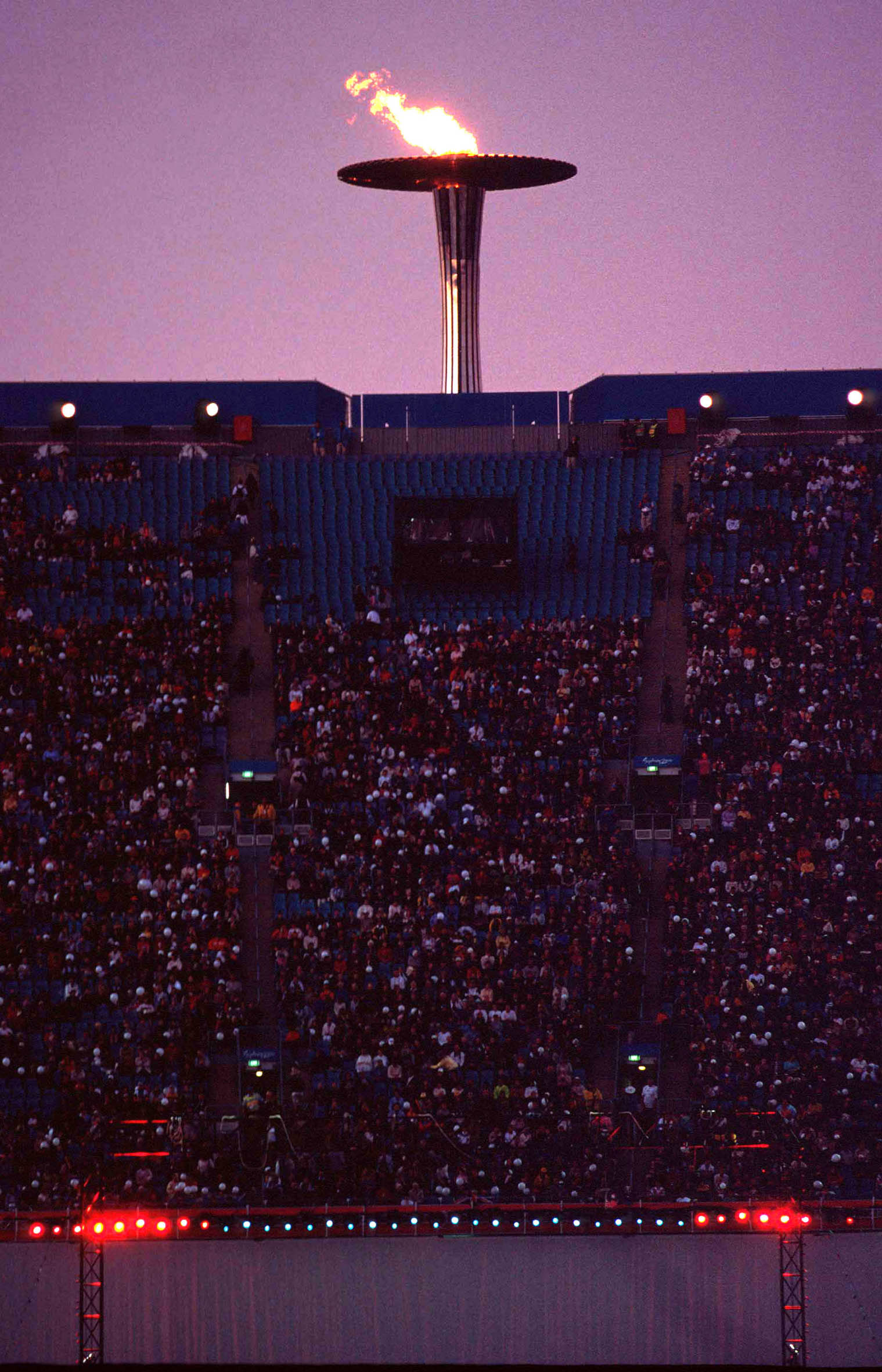 The Paralympic Flame seen burning in its cauldron above the crowded stadium during the 2000 Sydney Paralympic Games